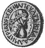 Prince Dmitry Yurievich Shemyaka's Seal. The Russian State Archive of Ancient Acts.